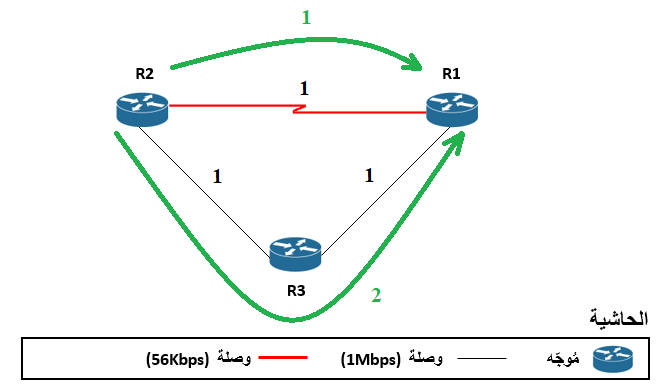 The link cost problem in RIP.